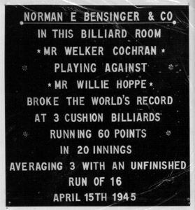 Announcement Board of Welker Cochran's world record in 1945